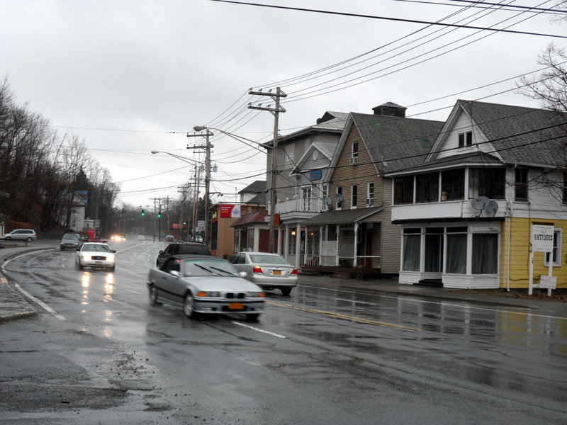 This photo shows Sloatsburg NY on Route 17